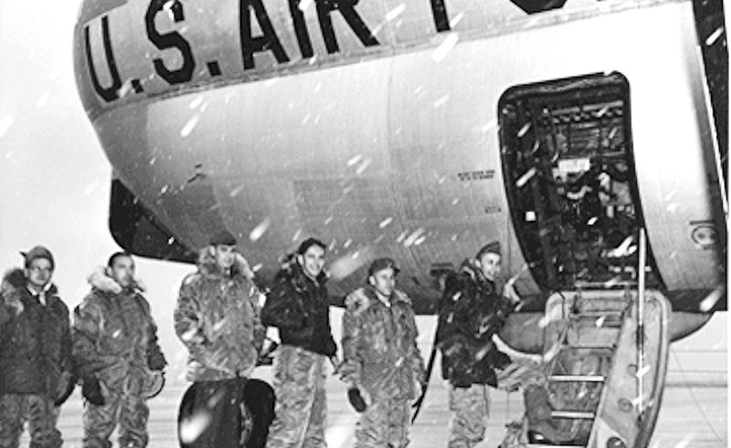 139th Military Airlift Squadron - C-97 Stratofreighter at DEW line site, 1975